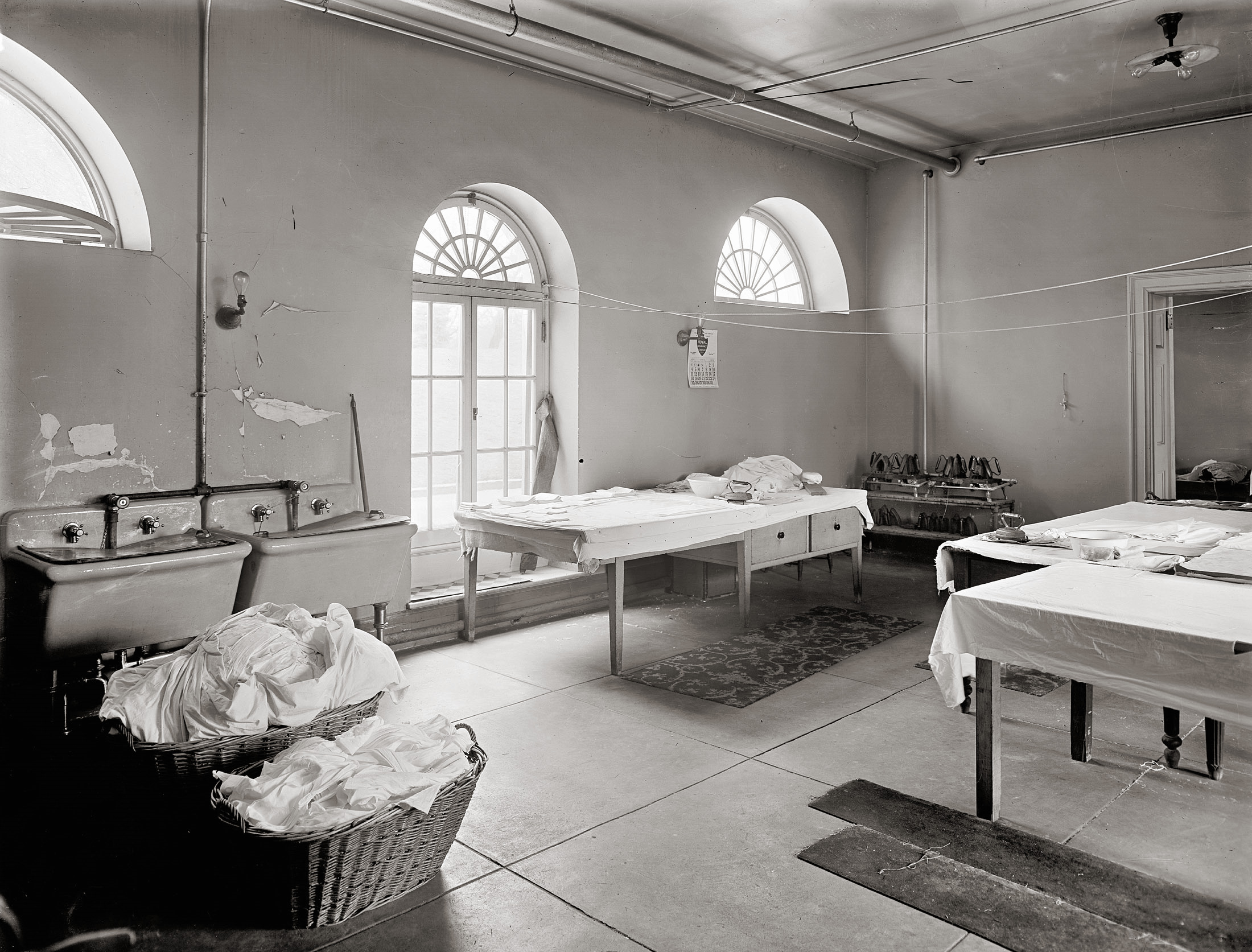 Laundry room of the White House in Washington, D.C.